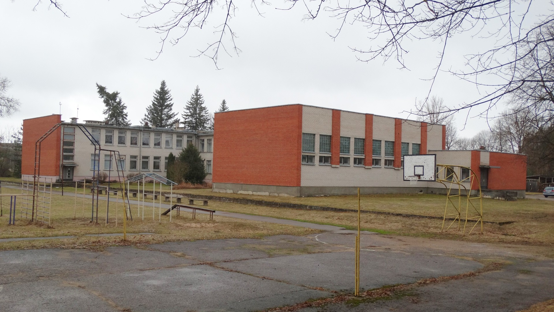 School, Kuktiškės, Utena district, Lithuania